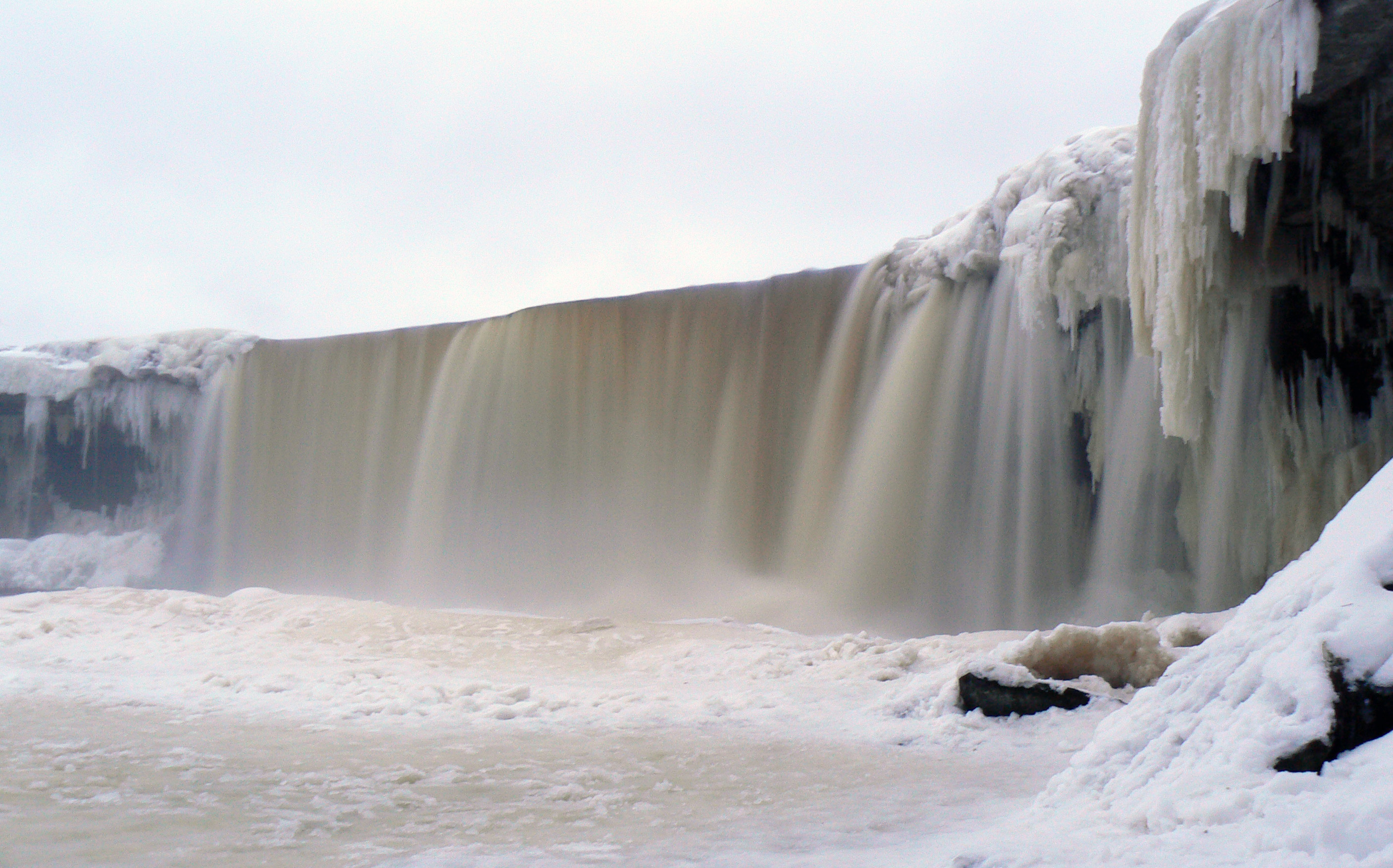 Jägala waterfall in winter